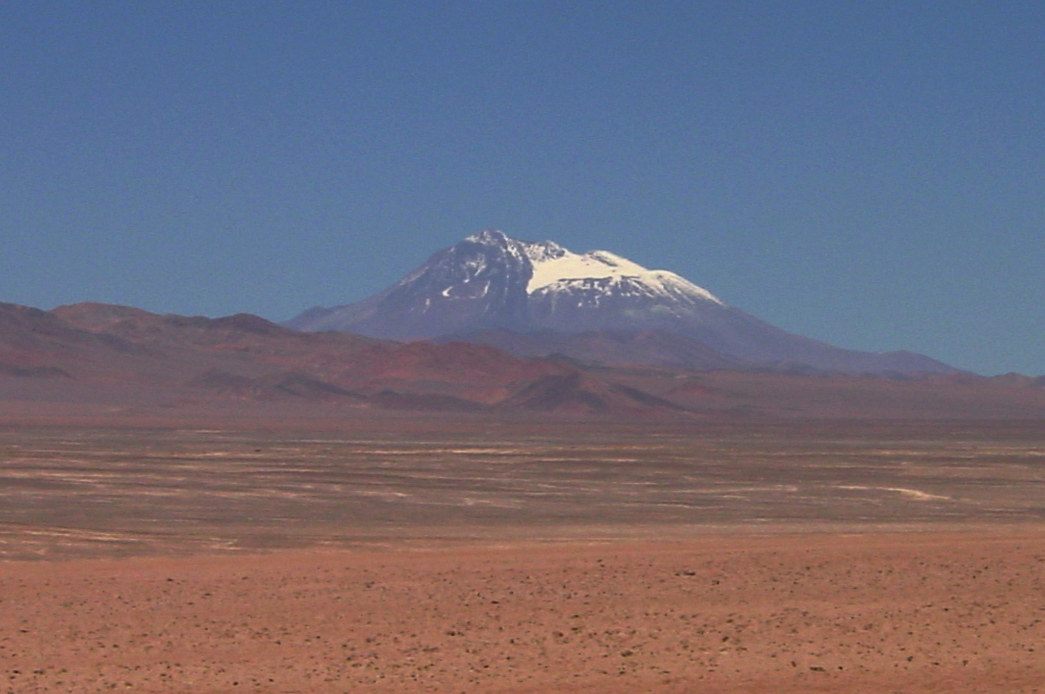 Socompa volcano (6031m) seen from the northwest, from road B-241, Antofagasta Region, Chile